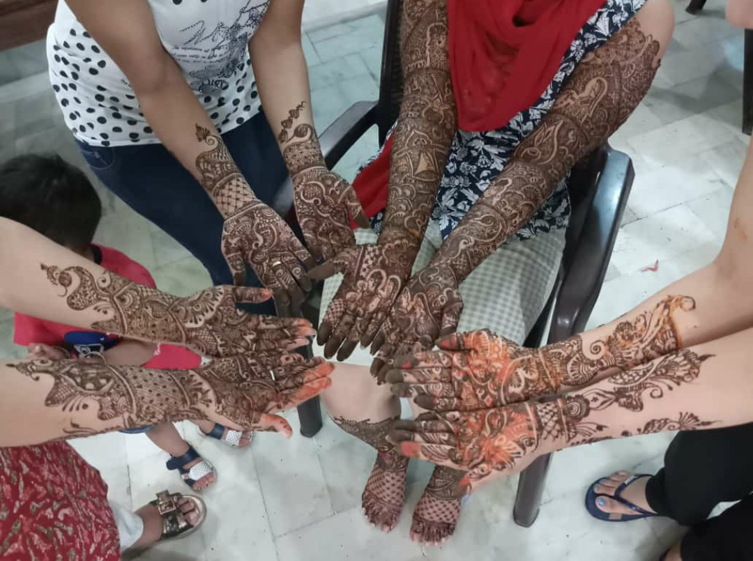 Henna symbolises purity , newness and optimism in traditional hindu culture in India.Different designs are made on hands with henna. Brides and bride mates apply henna on hands , the day before the wedding. This picture of ours is taken from my cousin's wedding ceremony of henna's application.